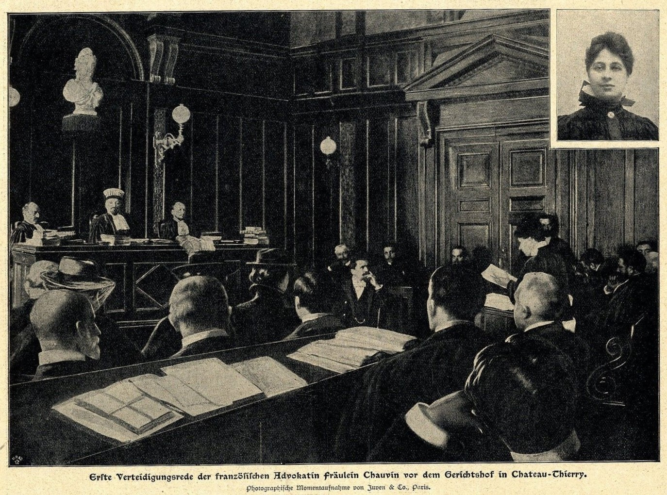 Jeanne Chauvin, the second woman in France to be sworn in as a lawyer at work